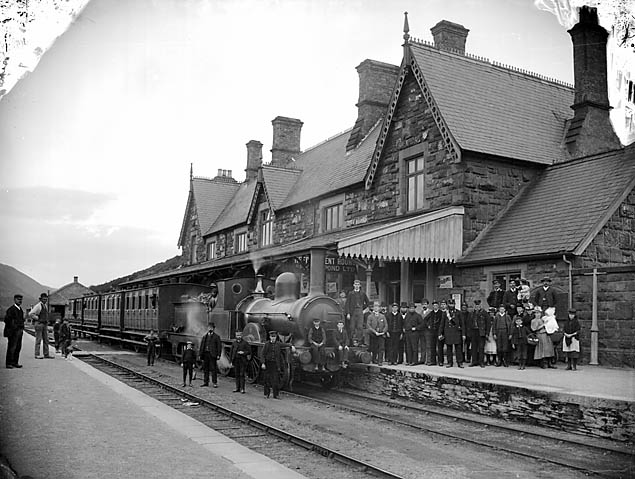 1 negative : glass, dry plate, b&w ; 16.5 x 21.5 cm.